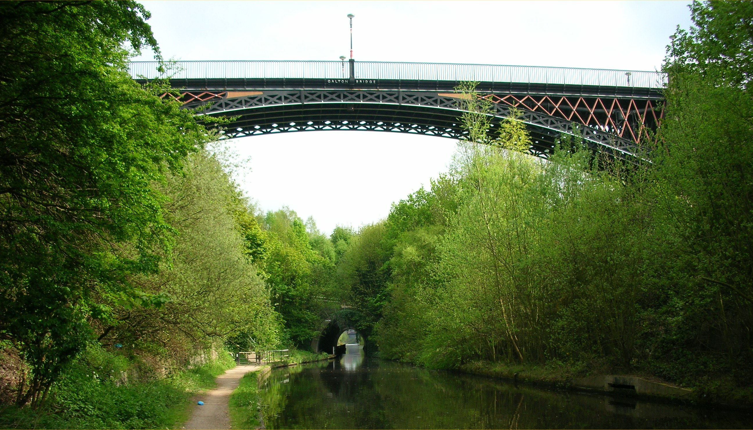 Galton Bridge (Thomas Telford, 1829), and Galton Tunnel (modern) near Smethwick, West Midlands, England. Photographed by me 22 April 2007. Oosoom 21:08, 22 April 2007 (UTC)